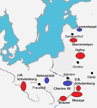 Map of the situation in late 1705, in the Grodno campaign.